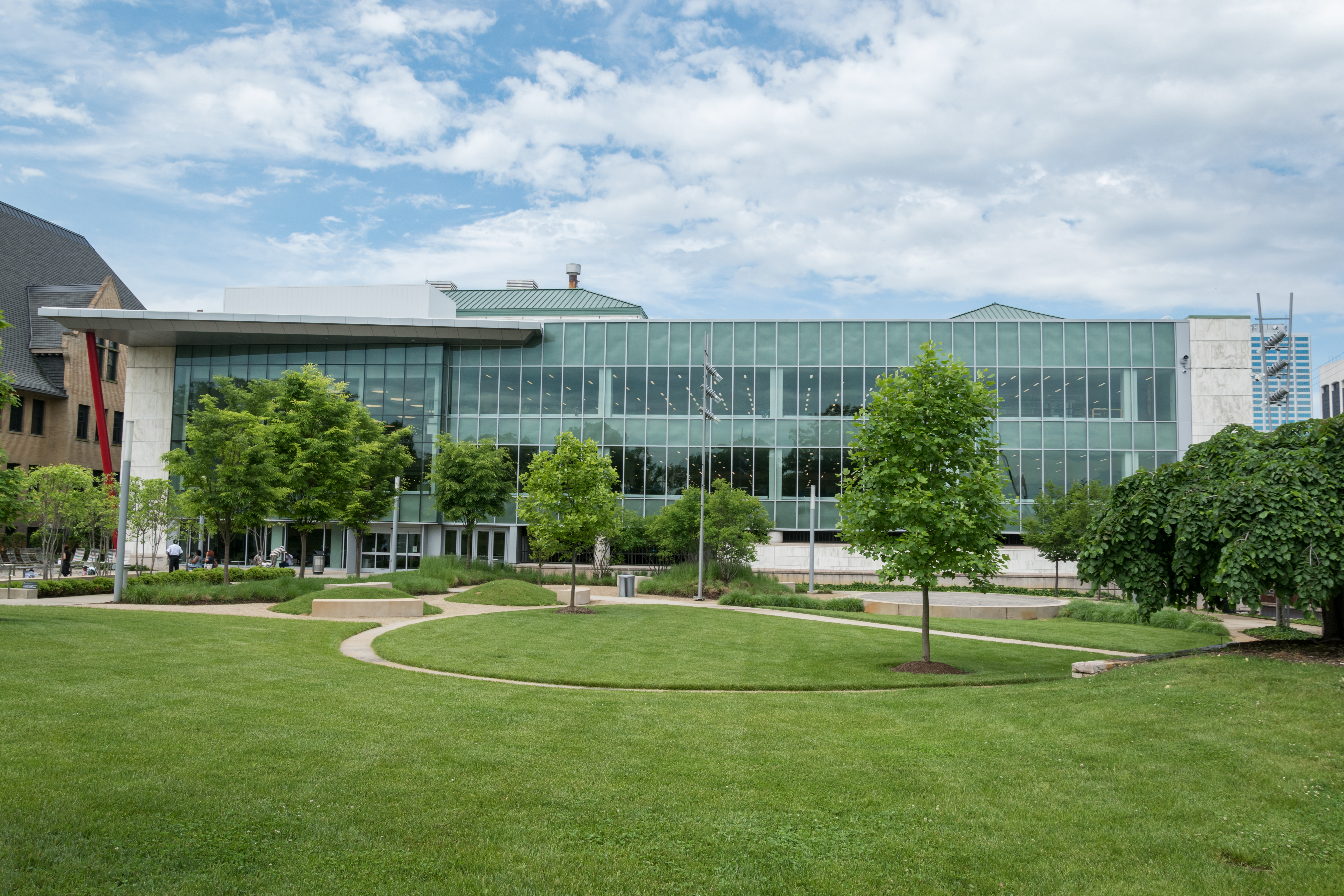 CML Main Library new wing.